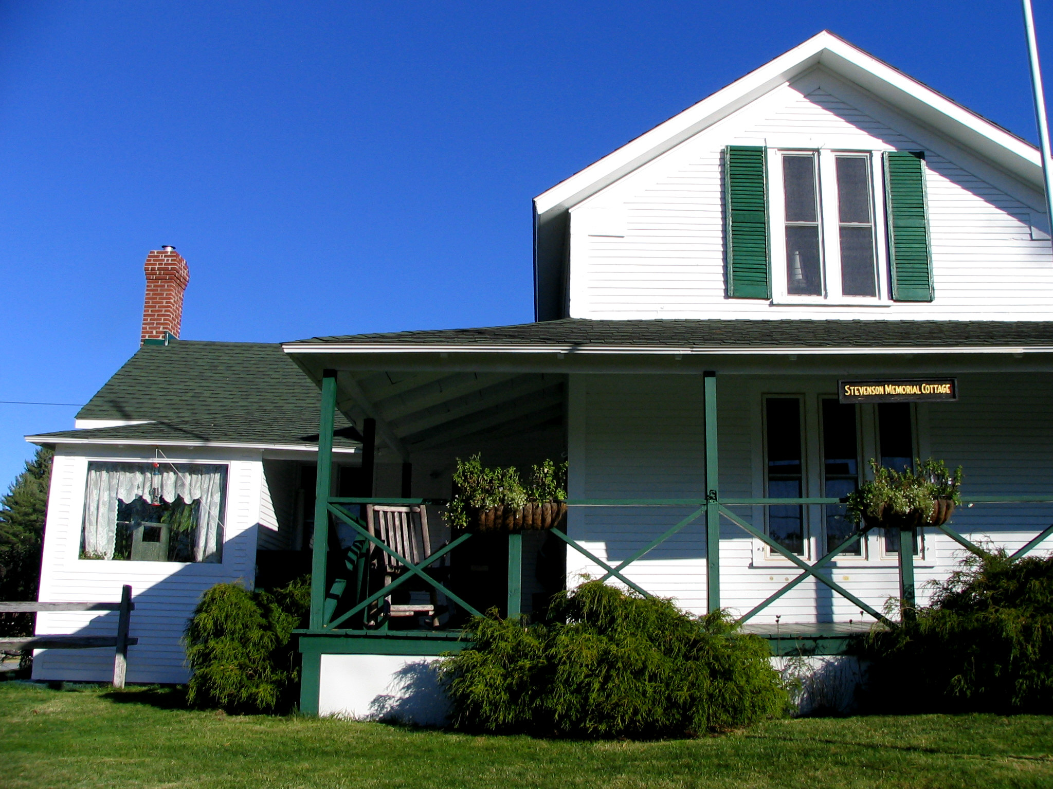 Robert Louis Stevenson's Cure Cottage in Saranac Lake, New York. Taken by User:Mwanner, 2 November, 2007.